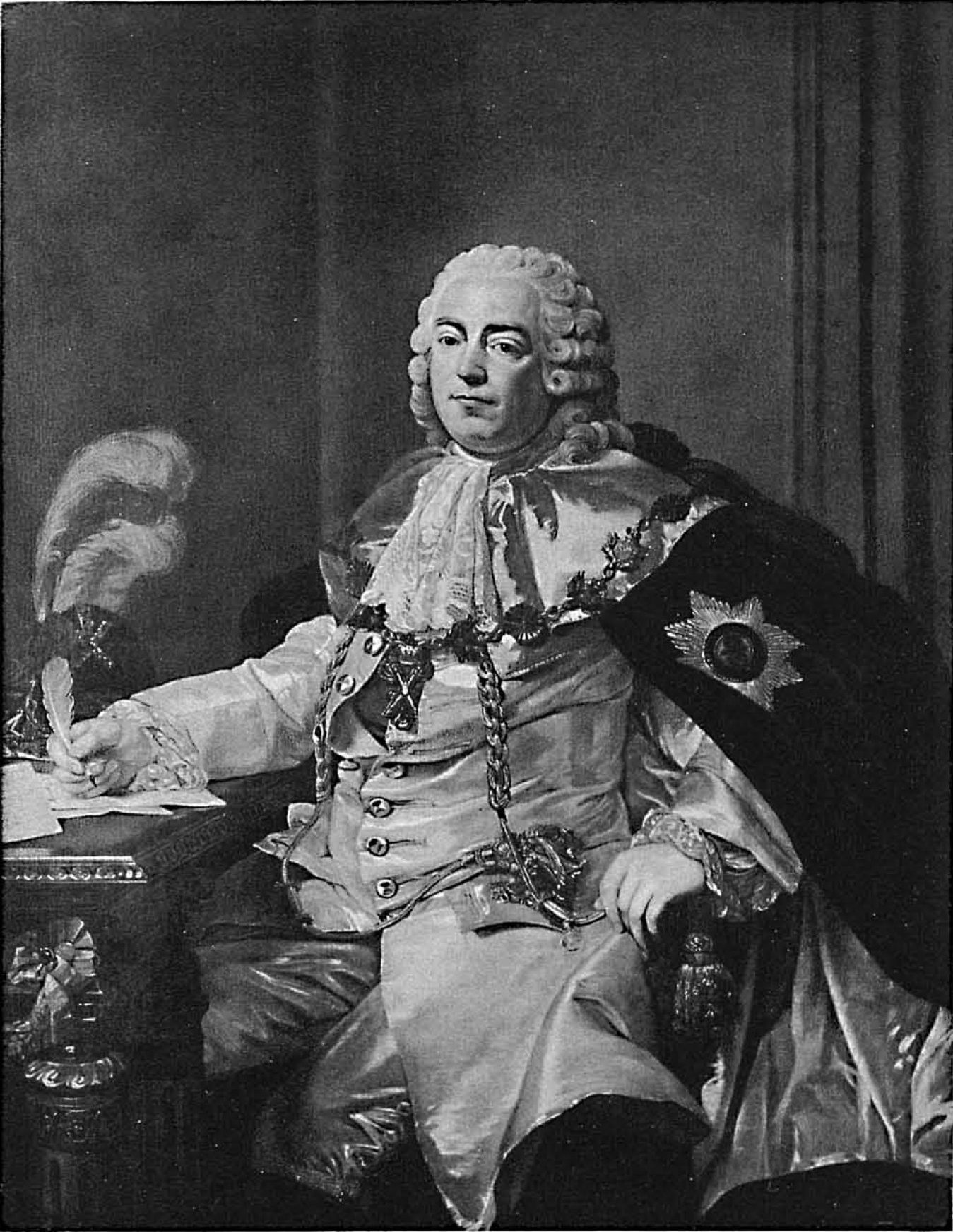 Portrait of Peter Grigorievitch Chernyshev (1712-1773)